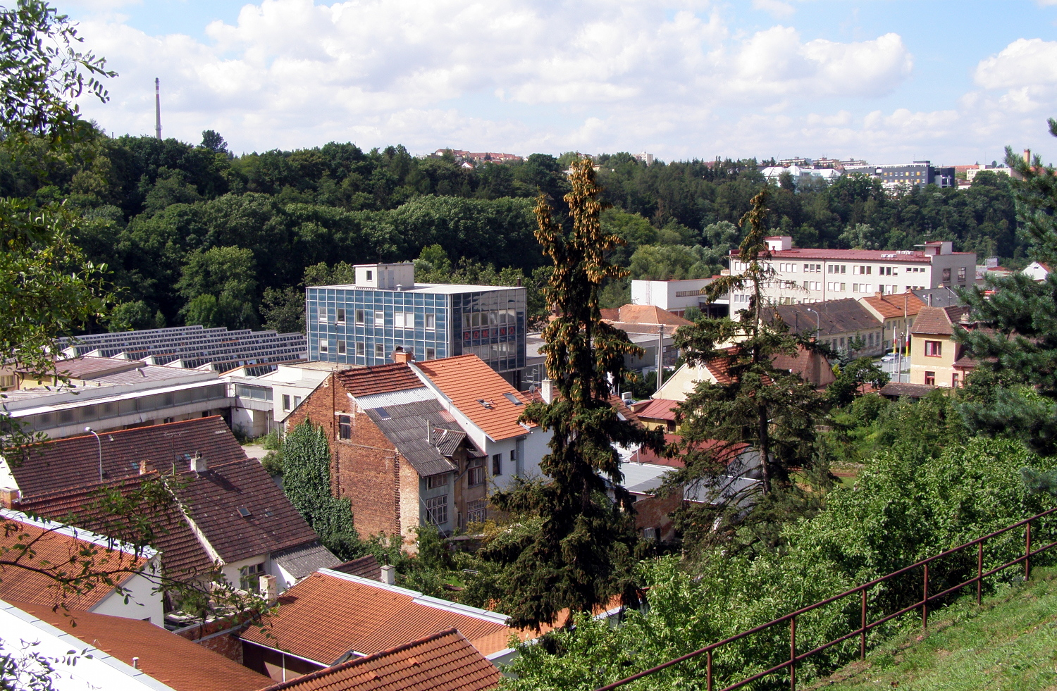 Třebíč-Nové Město. Brněnská street